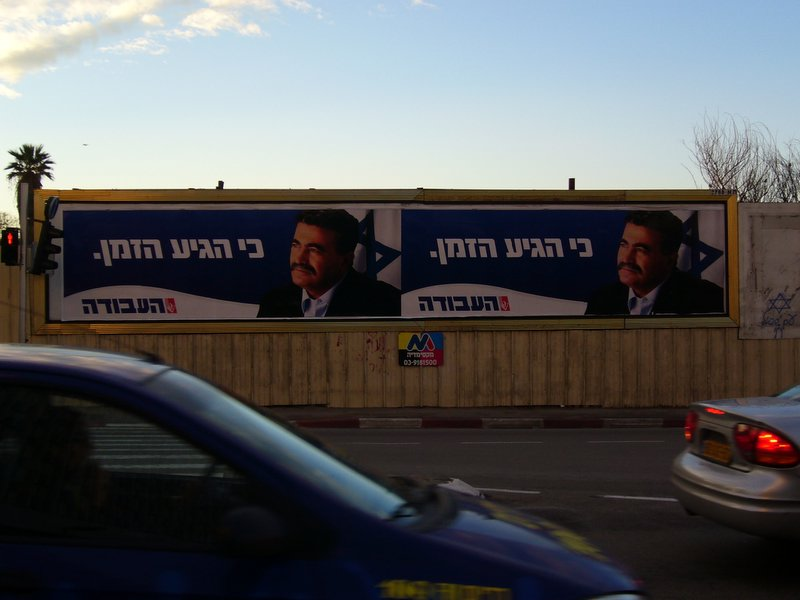 Joel Silver aka Evolver of Borg took this photo on January 15th, 2006 in Tel Aviv. The billboards were located adjacent to the Hilton Hotel in Independence Park.